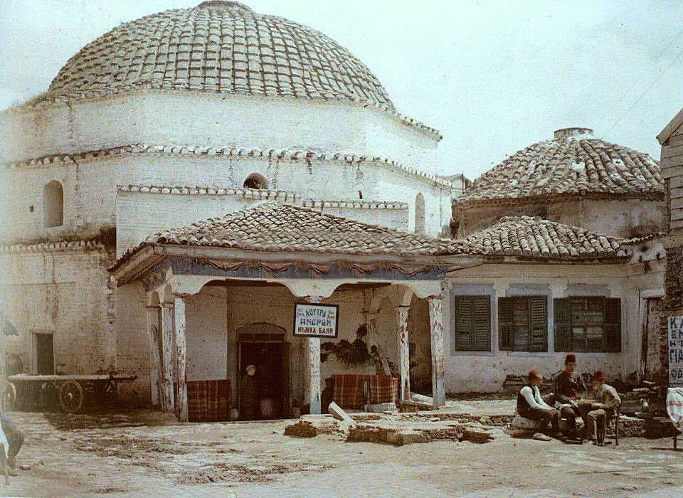 Bey Hamam (Public Baths) of Thessaloniki, 1913. The sign "Men's Bath" is written in both Greek and Bulgarian languages